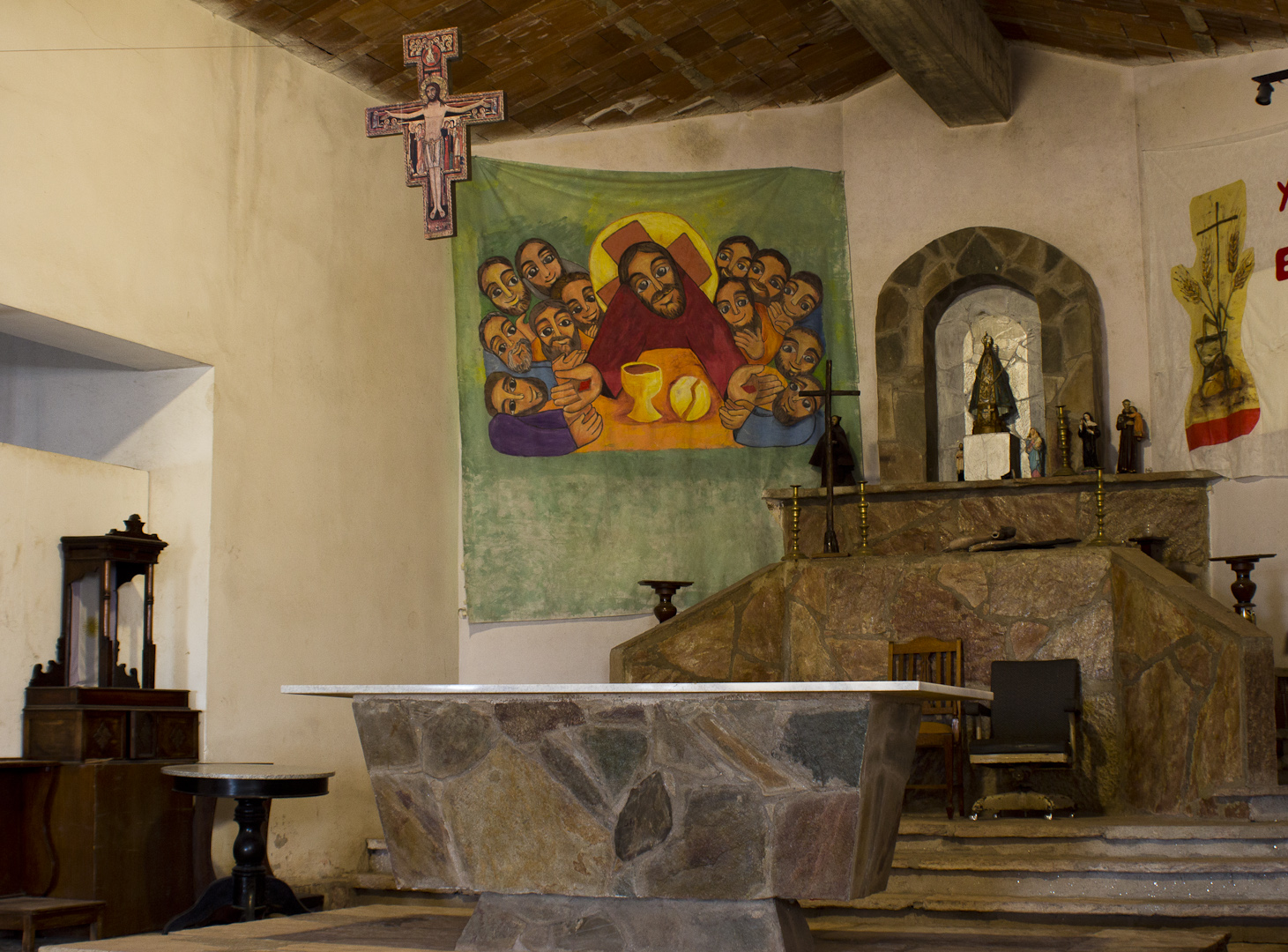 Interior de la Capilla Nuestra Señora del Valle, Los Gigantes